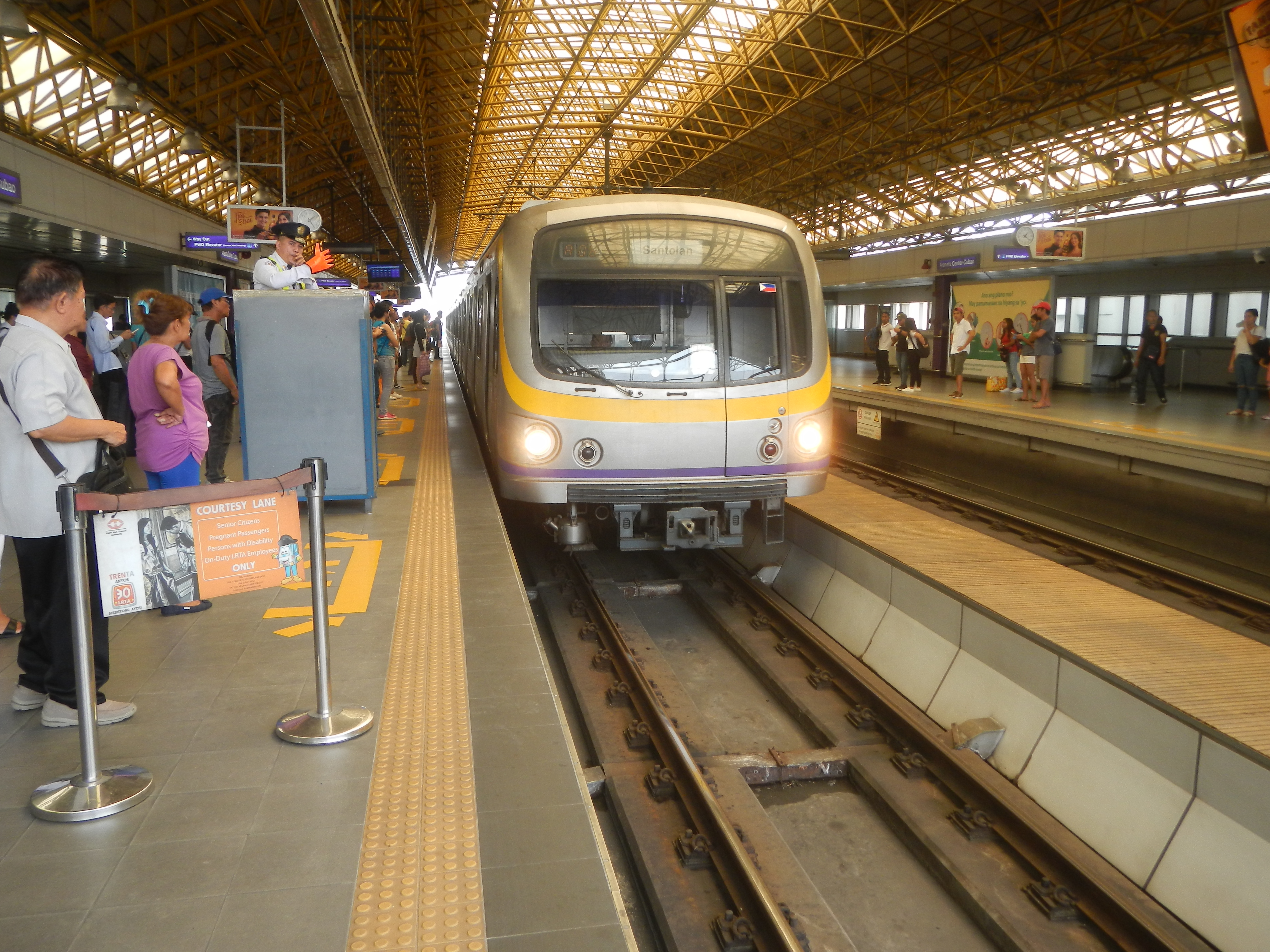 Araneta Center–Cubao station, Aurora Boulevard (Note: Judge Florentino Floro, the owner, to repeat, Donor Florentino Floro of all these photos hereby donate gratuitously, freely and unconditionally all these photos to and for Wikimedia Commons, exclusively, for public use of the public domain, and again without any condition whatsoever).